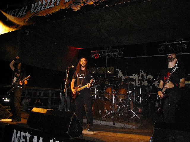 Rotting Christ playing live at Metal Valley Open Air.